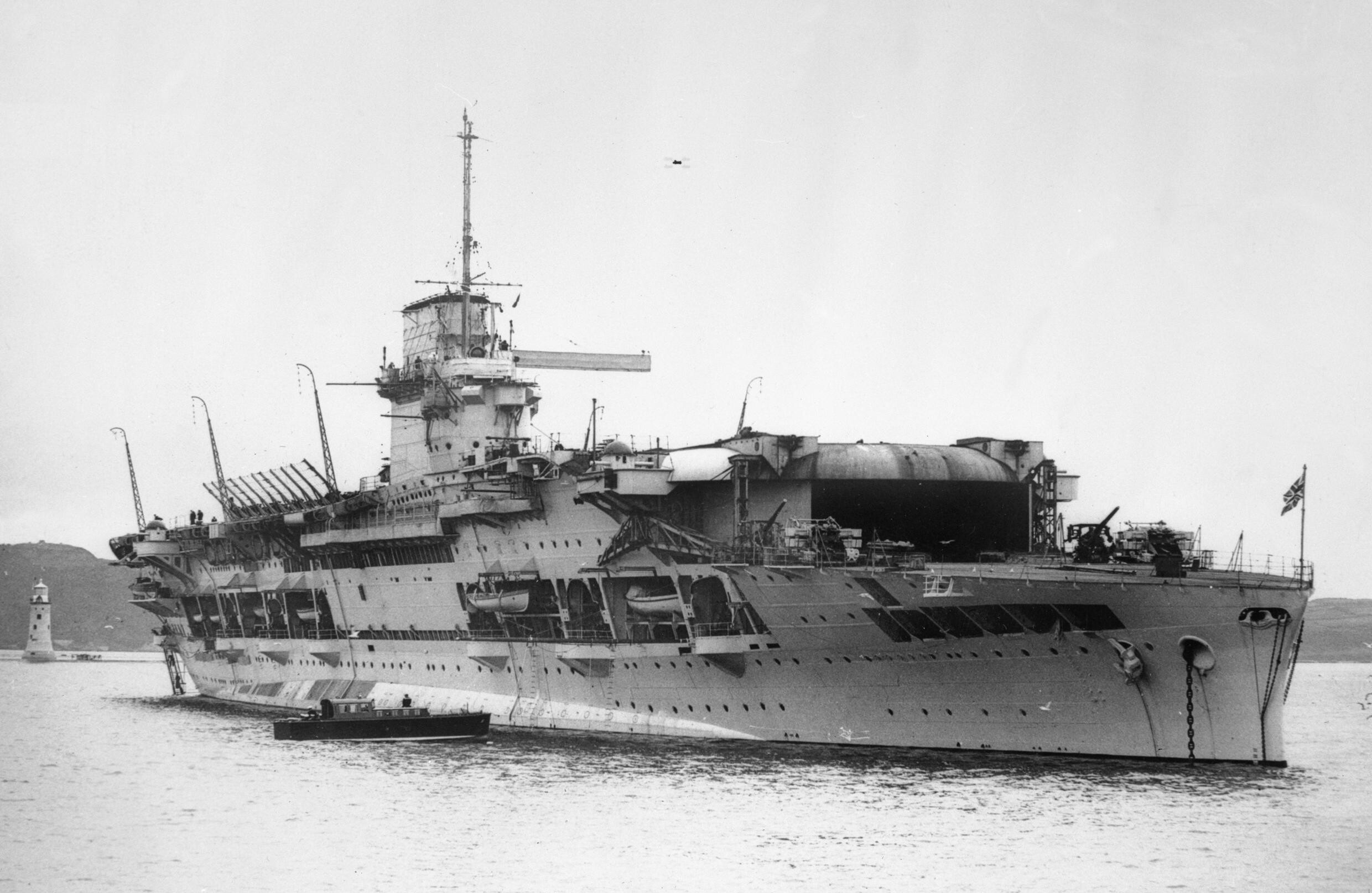 HMS Glorious At anchor.